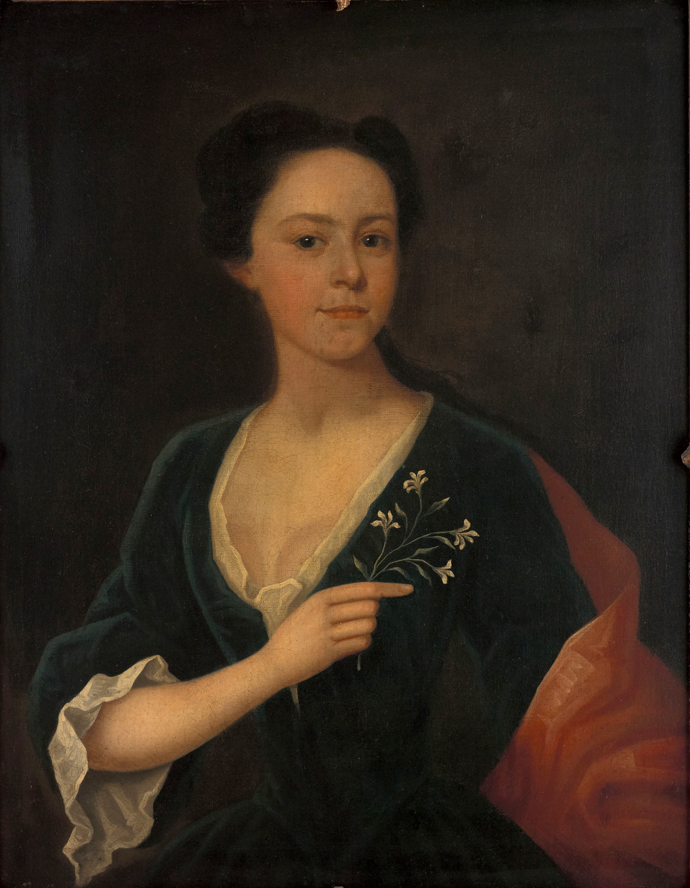 Portrait of Annis Boudinot Stockton (Mrs. Richard Stockton) at the Princeton University Art Museum.